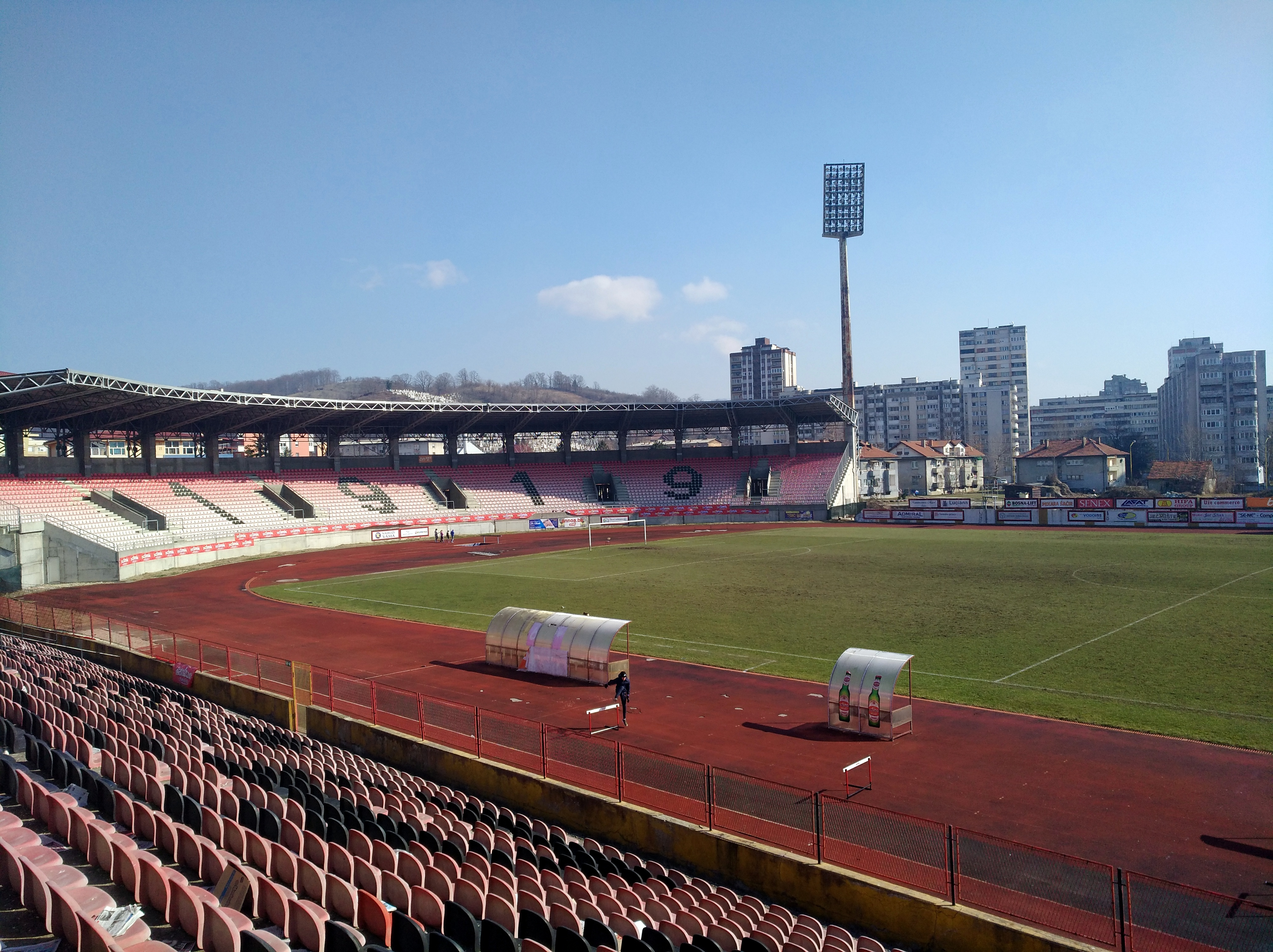 Tušanj Stadium, Tuzla, Bosnia and Herzegovia.